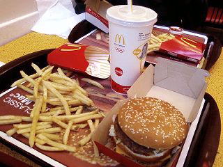 A Big Mac combo meal with French fries and Coca-Cola served at a McDonald's in Louisvile, Kentucky.